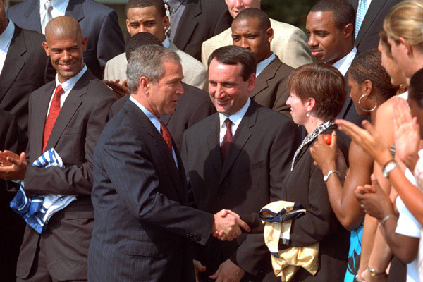 President George W. Bush meeting with the national champion Duke University mens' basketball team in 2001, on the South Lawn of the White House. The four subjects in the front of the shot are (from left to right) forward Shane Battier, President Bush, coach Mike Krzyzewski, and Muffet McGraw (head coach of the ND Women's Basketball team)